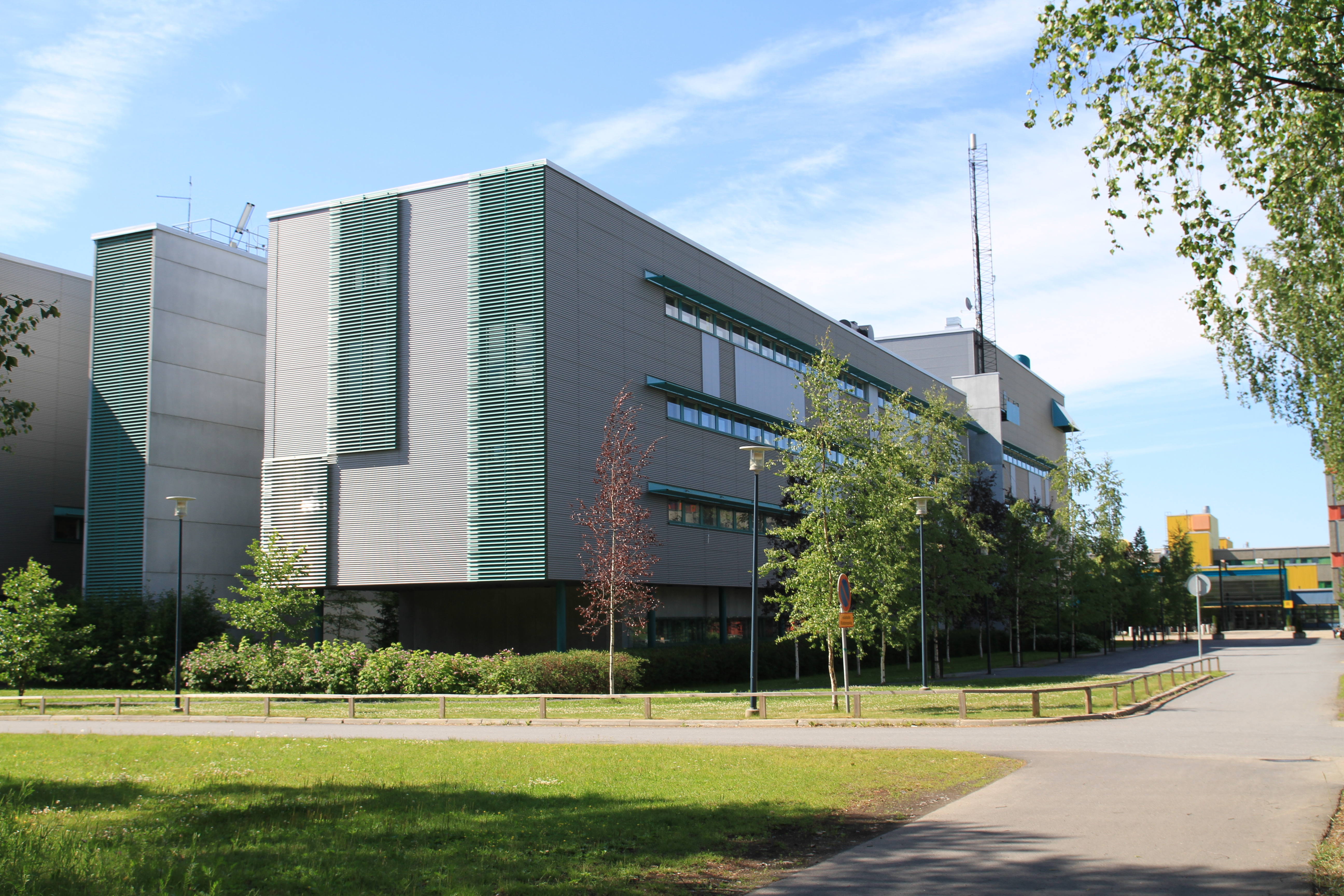 University of Oulu, Faculty of Information Technology and Electrical Engineering, in Oulu, Finland. The building was completed in 2001.